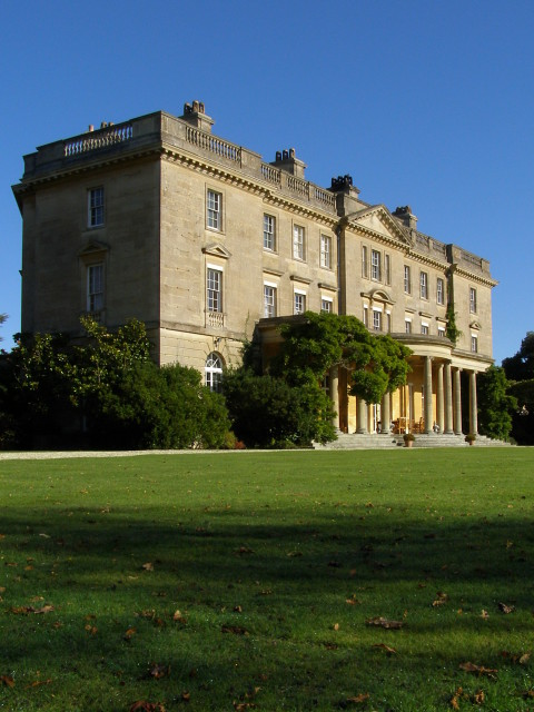 Exbury House The south front of the house, which has views across the Solent towards the Isle of Wight. The house and this lawn are out of bounds to visitors to the Exbury gardens.